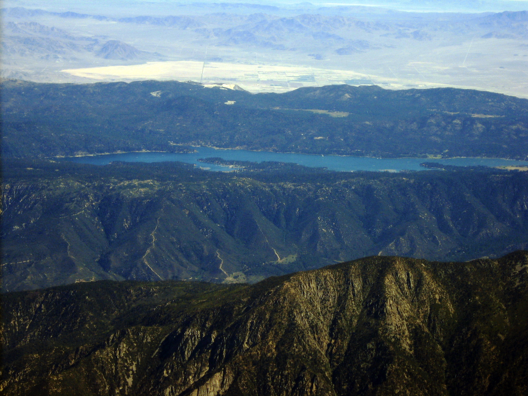 Photo of Big Bear Lake in the San Bernardino Mountains, with Lucerne Dry Lake visible behind in the Mojave Desert